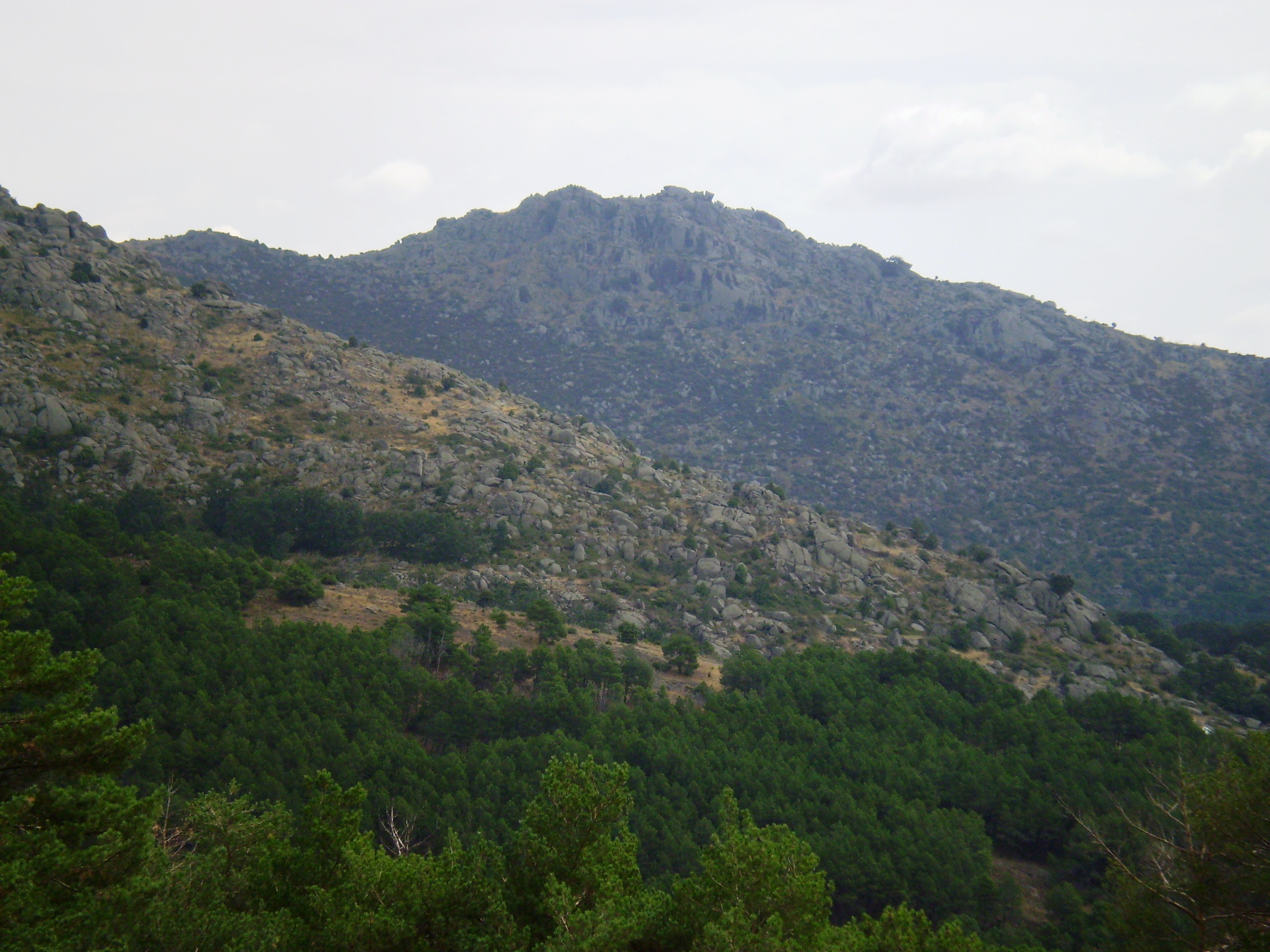 Las Machotas (Sierra de Guadarrama, Community of Madrid, Spain)